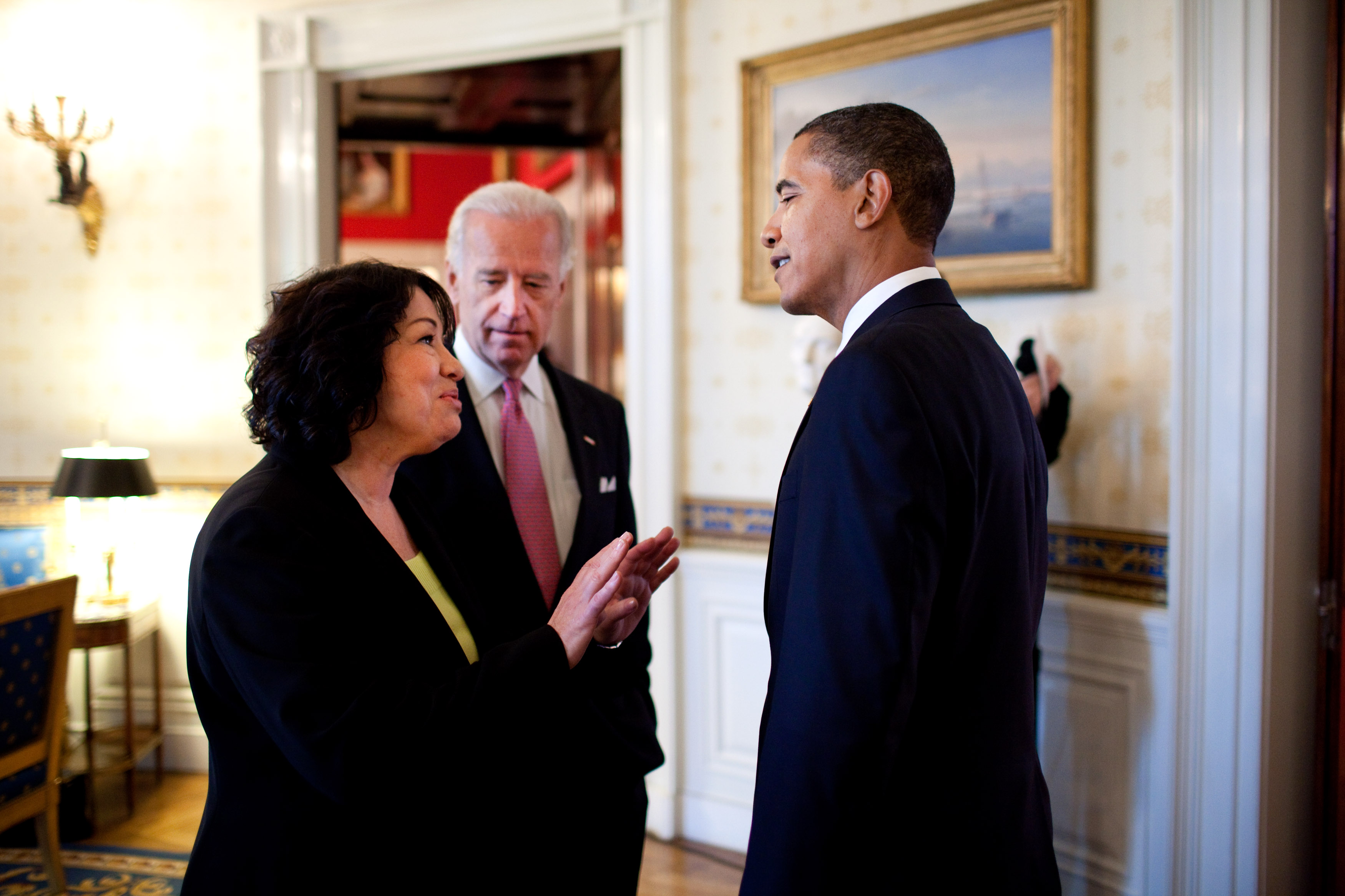 President Barack Obama meets with Appeals Court Judge Sonia Sotomayor, the nominee to replace retiring Supreme Court Justice David Souter, and Vice President Joseph Biden prior to an announcement in the East Room, May 26, 2009